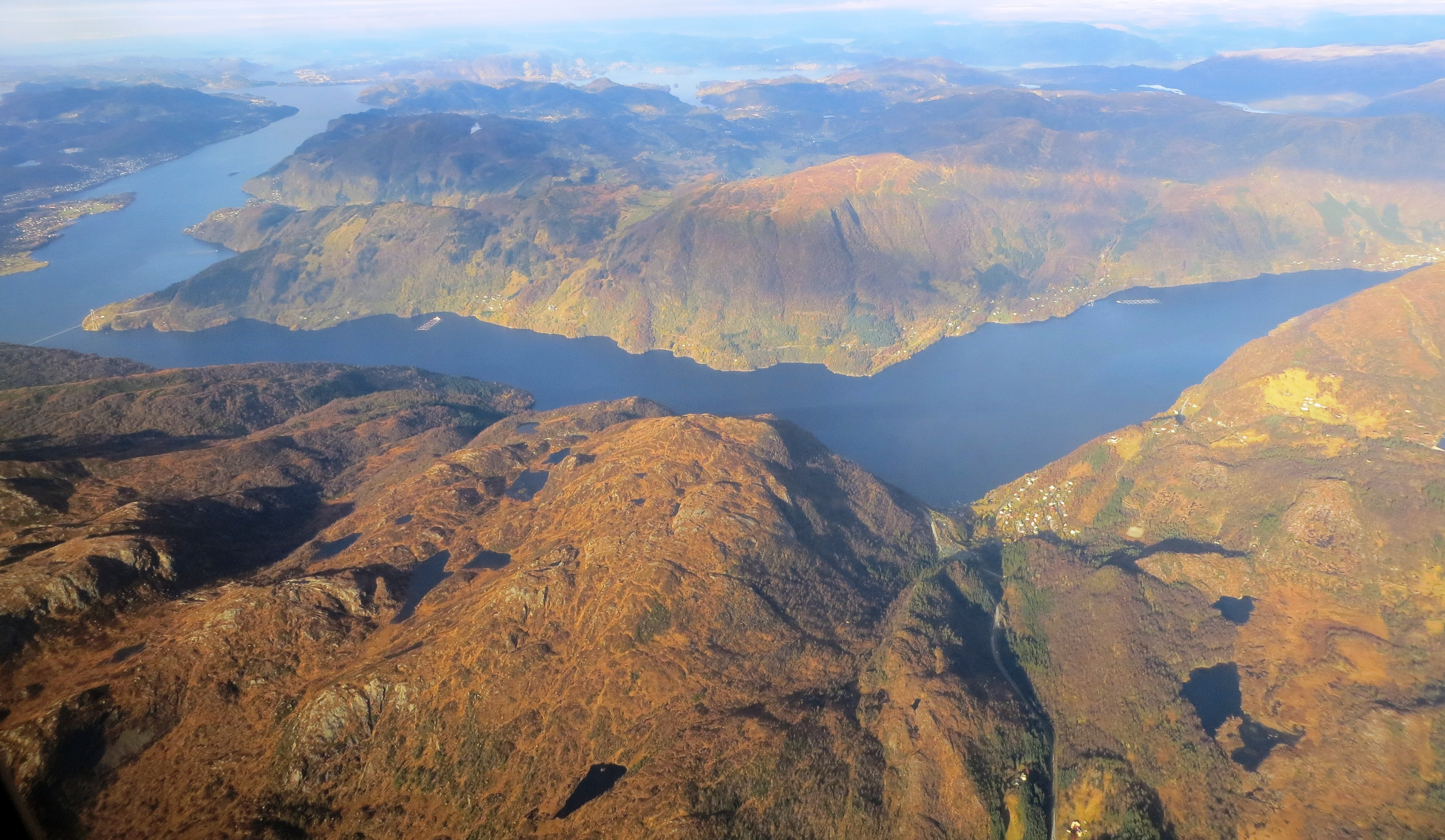 Aerial view of Osterøy, from the south towards the north. Northeast of Bergen, Hordaland (west Norway). The fjord is named Sørfjorden.